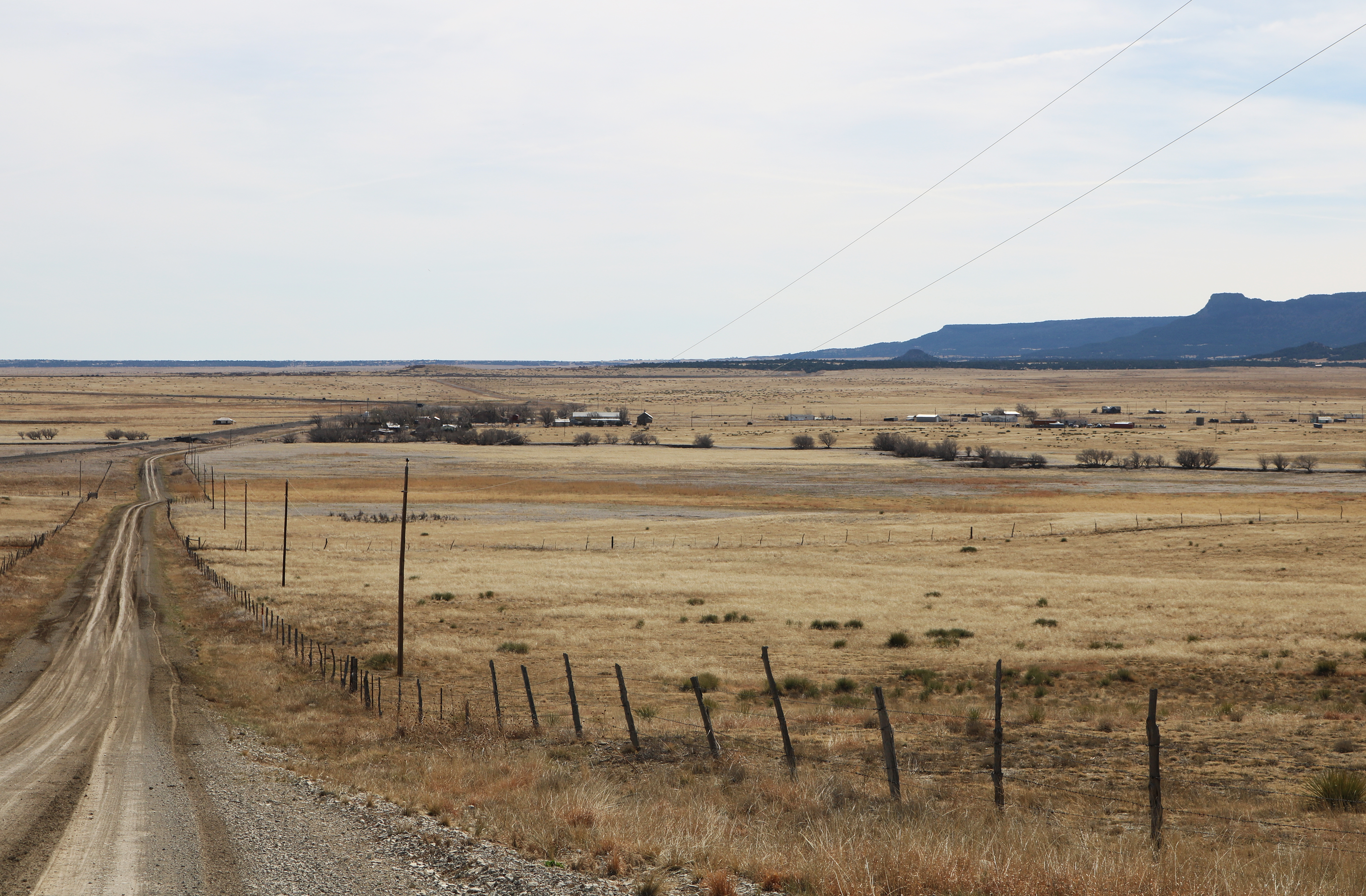 A view of Trinchera, Colorado, an unincorporated community in Las Animas County, Colorado. The view is from a hill to the west on County Road 8.8.